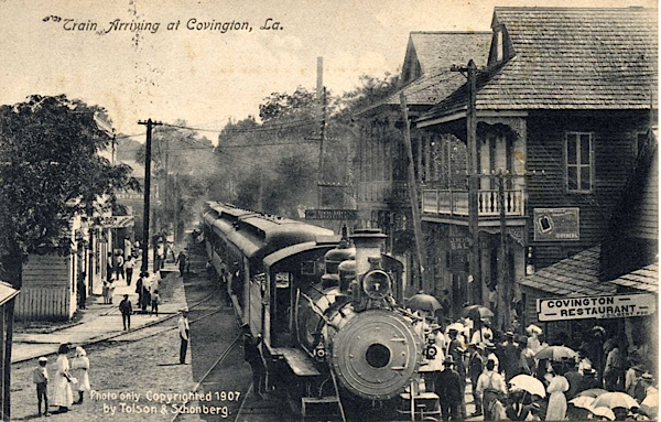 New Orleans Great Northern Railroad train arriving in Covington, Louisiana, 1907. Postcard view.